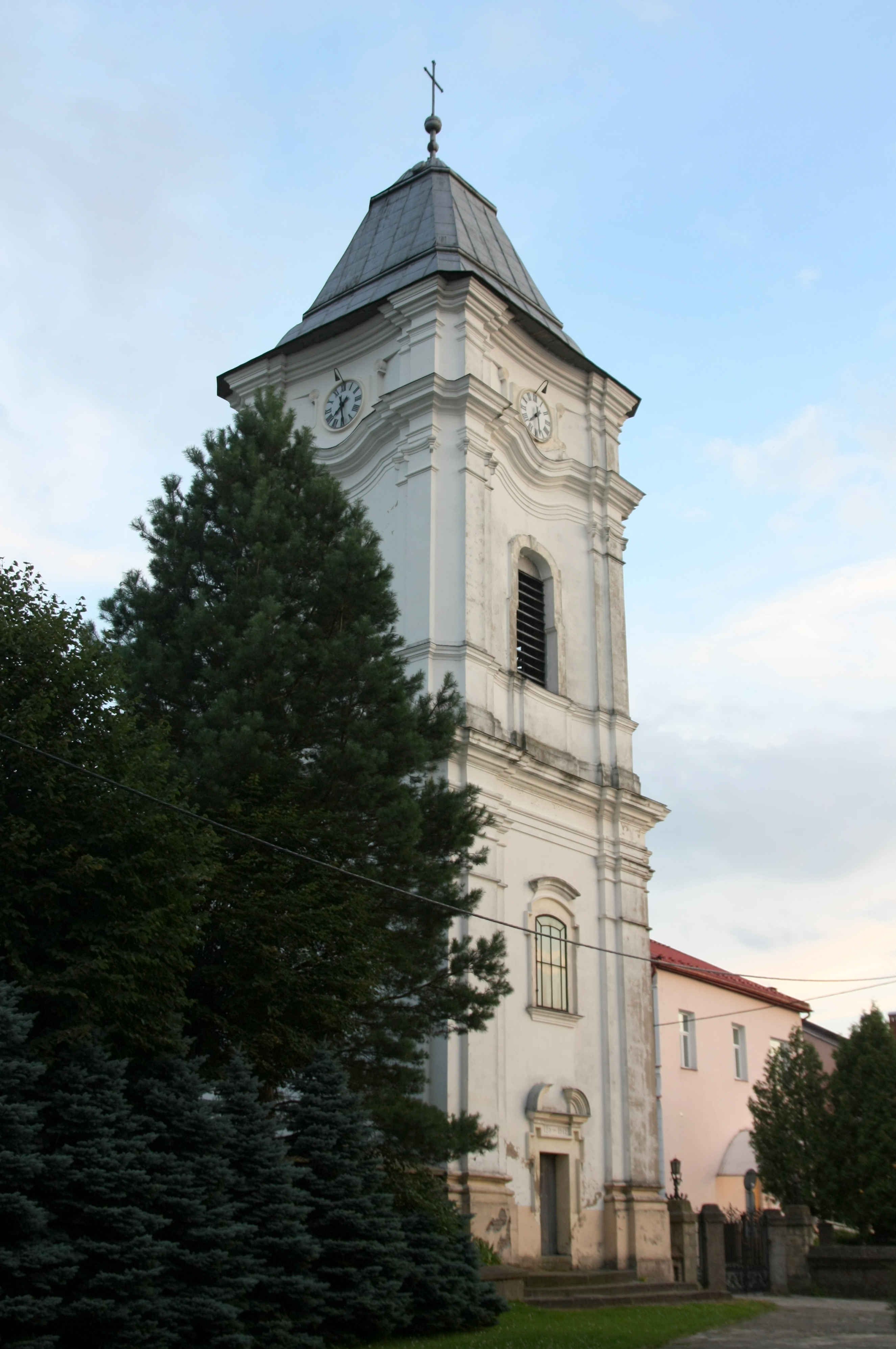 Bell tower in Lesko.